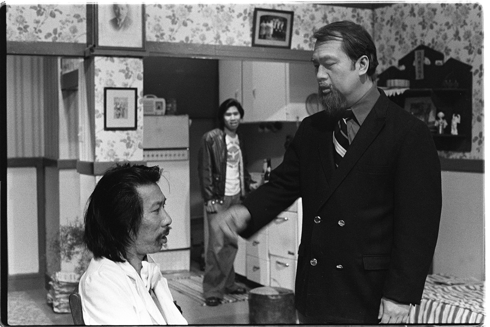 "The Year of the Dragon," a 1978 production by the Asian American Theater Workshop in San Francisco, California. Photograph by Nancy Wong. Frank Chin (seated) and George Woo are "Fred Eng" and his father.Actor Mike Lee as "Johnny," the younger son who is in the background